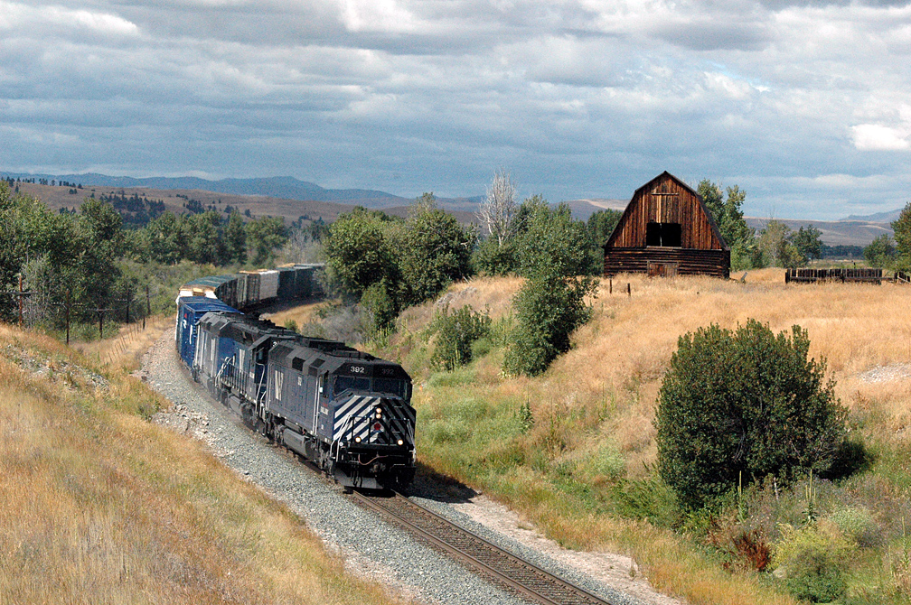 MRL F45 #392 with the M-L at Jens, MT Aug 24 2005